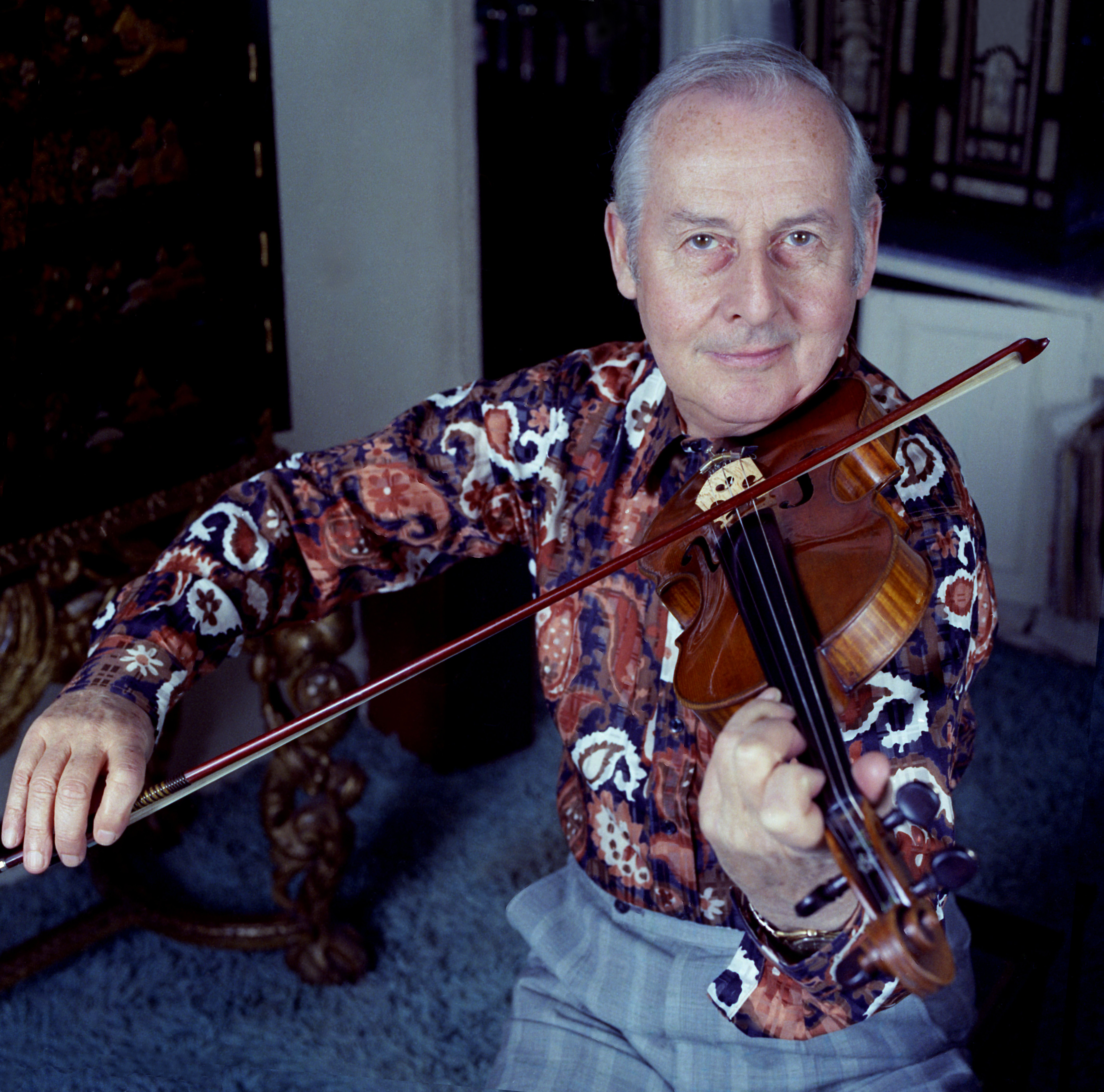 Stephane Grappelli taken in photographer's home, London